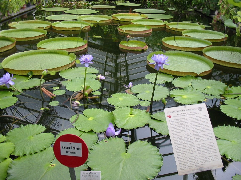 Water lilies (Victoria)